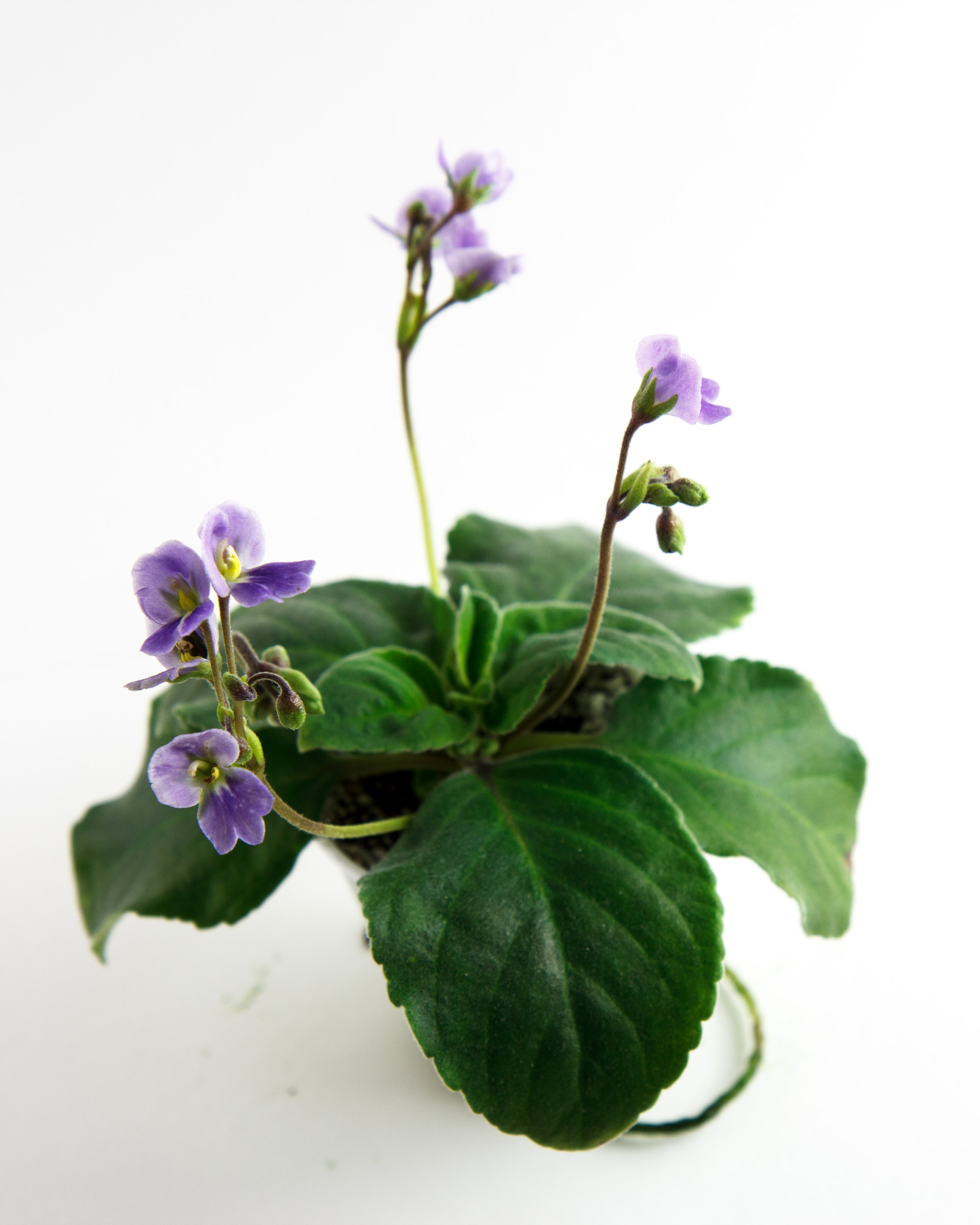 Boea hemsleyana plant